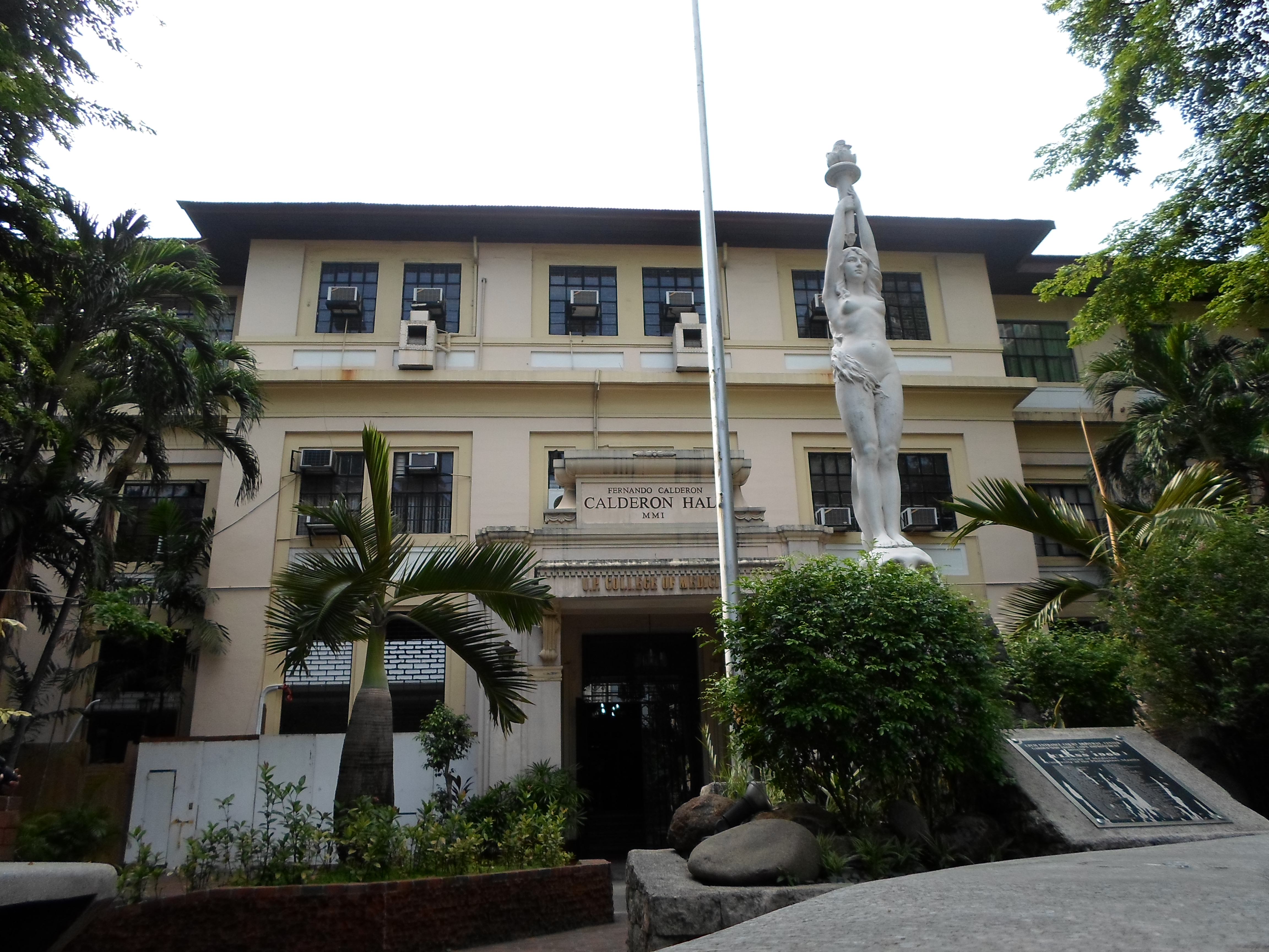 The Calderon Hall is the main building of UP College of Medicine students.